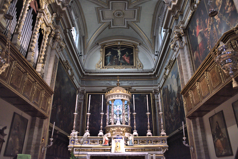 Presbitery of church of San Benedetto in Crema (Italy)